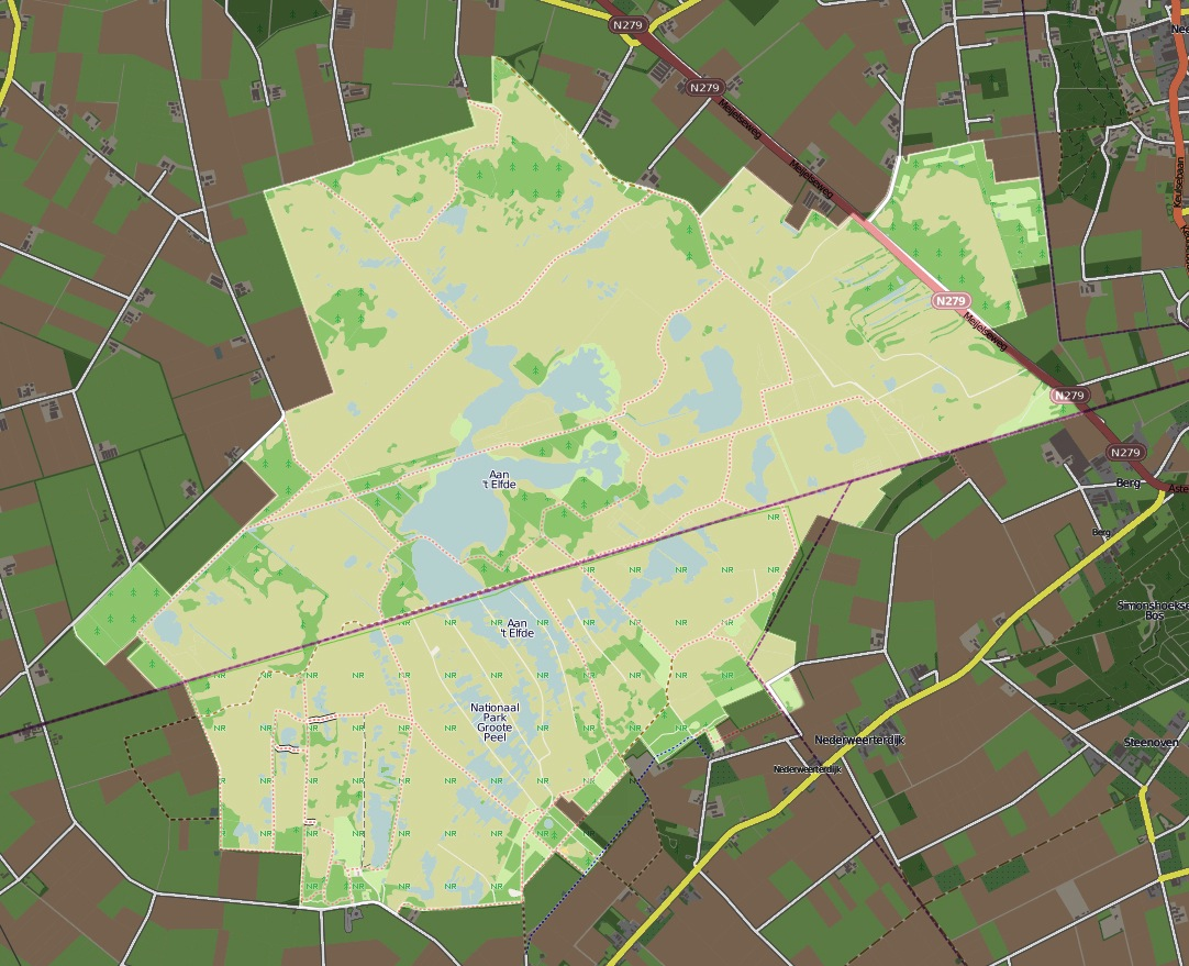 This map may be incomplete, and may contain errors. Don't rely solely on it for navigation.